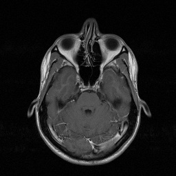 This is an MRI of my head. It is my property, and I hereby release it into the public domain.